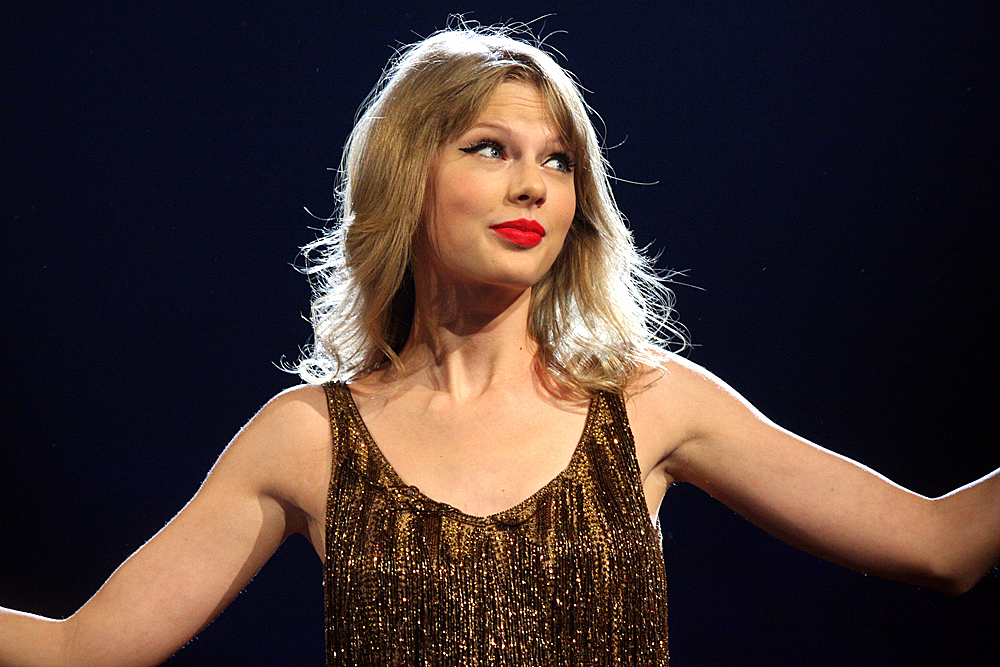 Taylor Swift - Speak Now Tour Hots Sydney, Australia 2012.